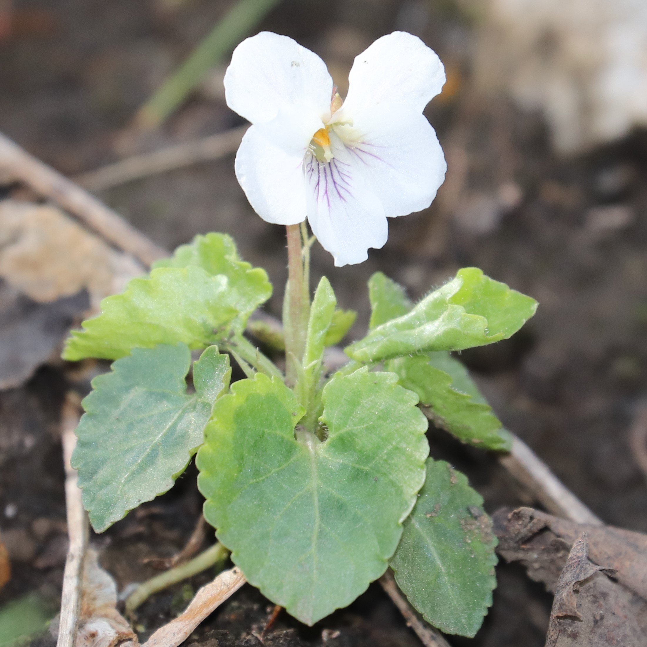 Viola keiskei in Mount Ibuki, Ibigawa, Gifu Prefecture, Japan.